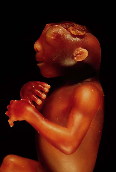 A side view of the anencephalic fetus shown also in Image:Anencephaly front.jpg Anencephaly is a fatal neural tube defect in which the cerebral hemispheres do not develop. Typically some brainstem tissue is present, but it is anatomically highly disorganized. Prenatal screening for neural tube defects has significantly decreased the number of births of infants with anencephaly, and correction of folate deficiency (now known to be an etiologic factor) is expected to reduce the incidence even further. It has been recommended that all women of childbearing age take folate supplements to reduce the risk of this devastating anomaly. With no upper brain development, there is no development of the calvarium. The result is that the eyes and eyelids are the topmost part of the body, giving the head a "frog-eyed" appearance. The side view, shown above, brings to mind some of the depictions of people and gods in Pre-Columbian Mesoamerican art. One could idly speculate that these early artists were inspired by sporadic anencephalic births among their people.